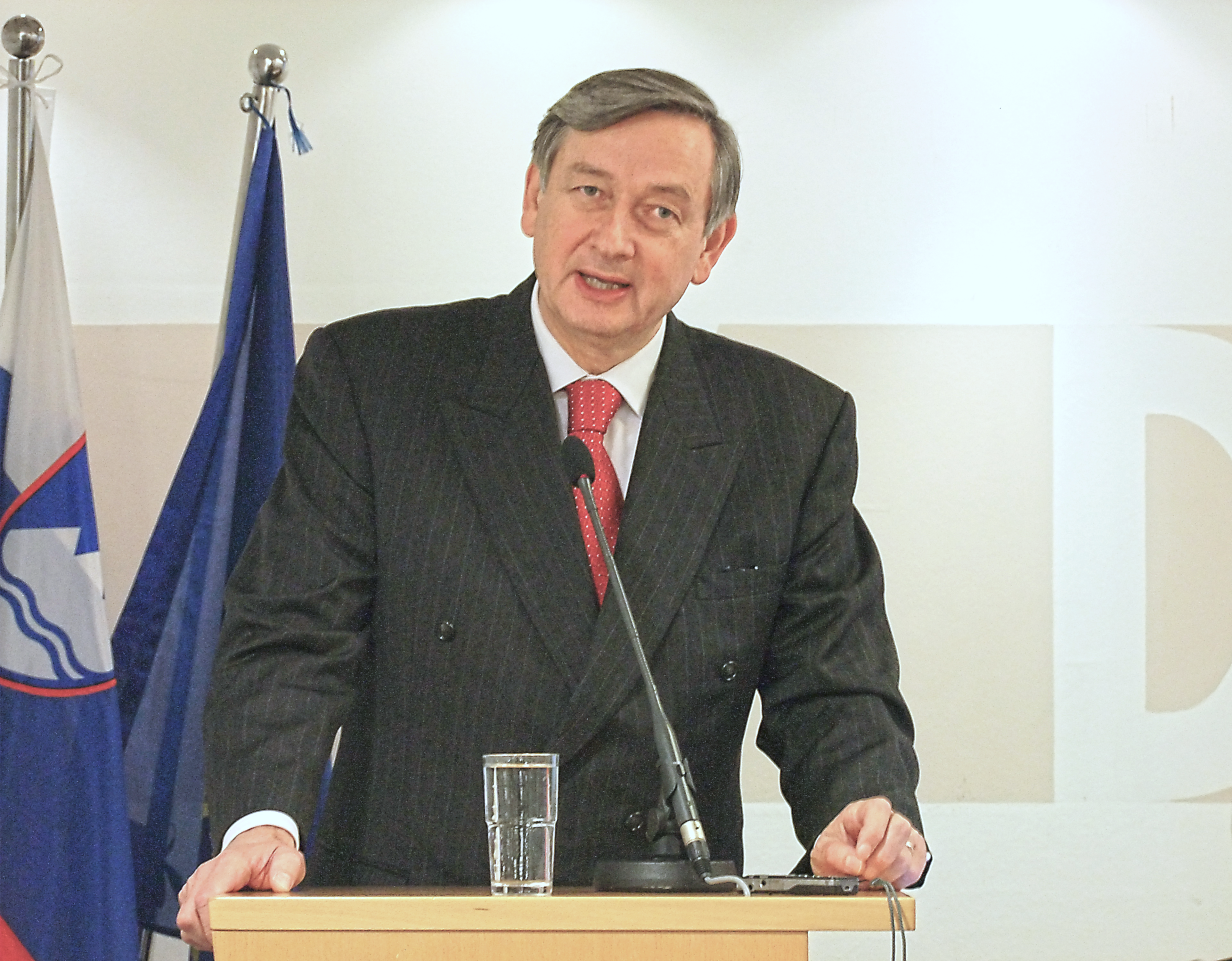 dr. Danilo Türk is talking about european politics